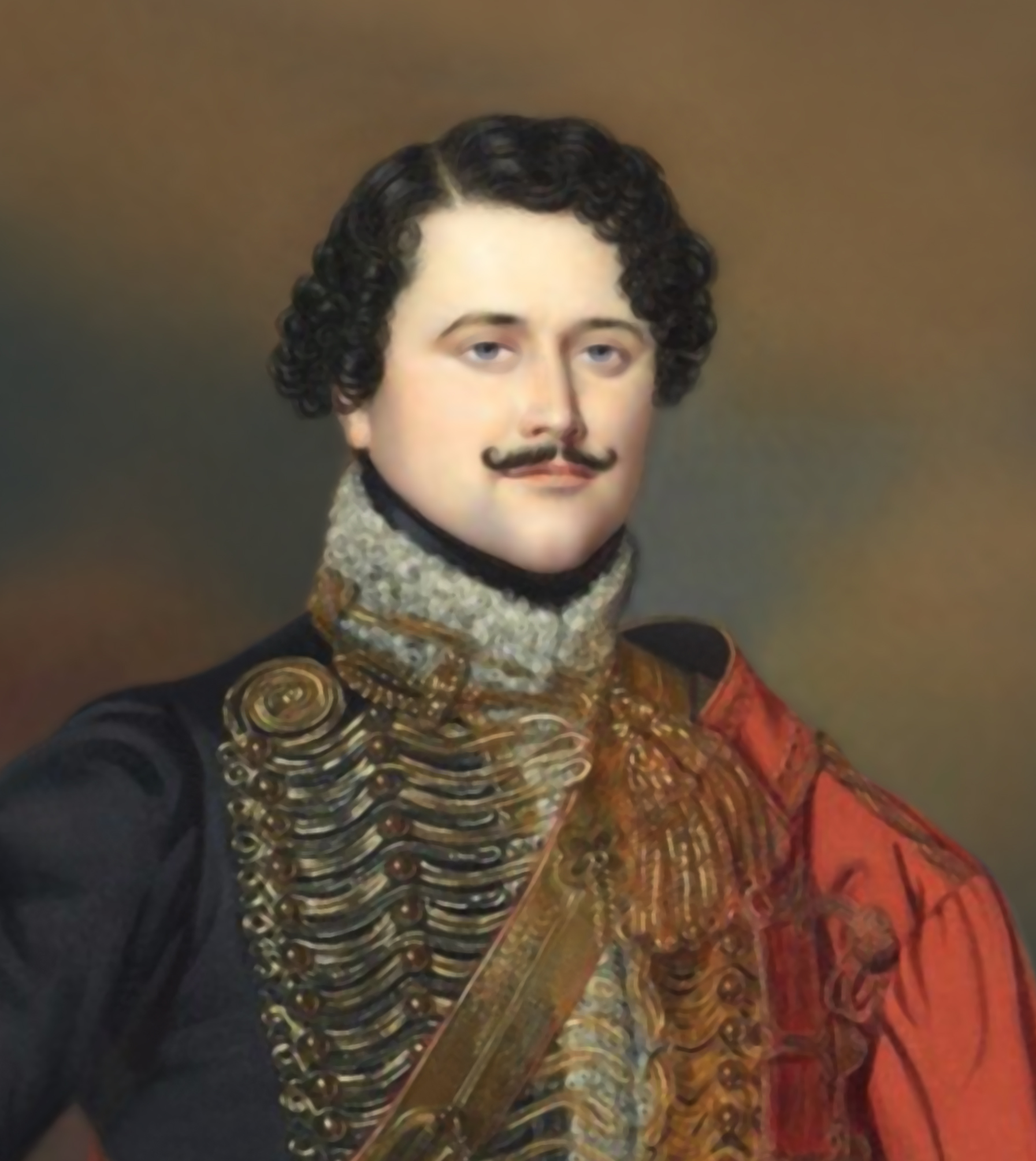 Marcellin Marbot en tenue de colonel.